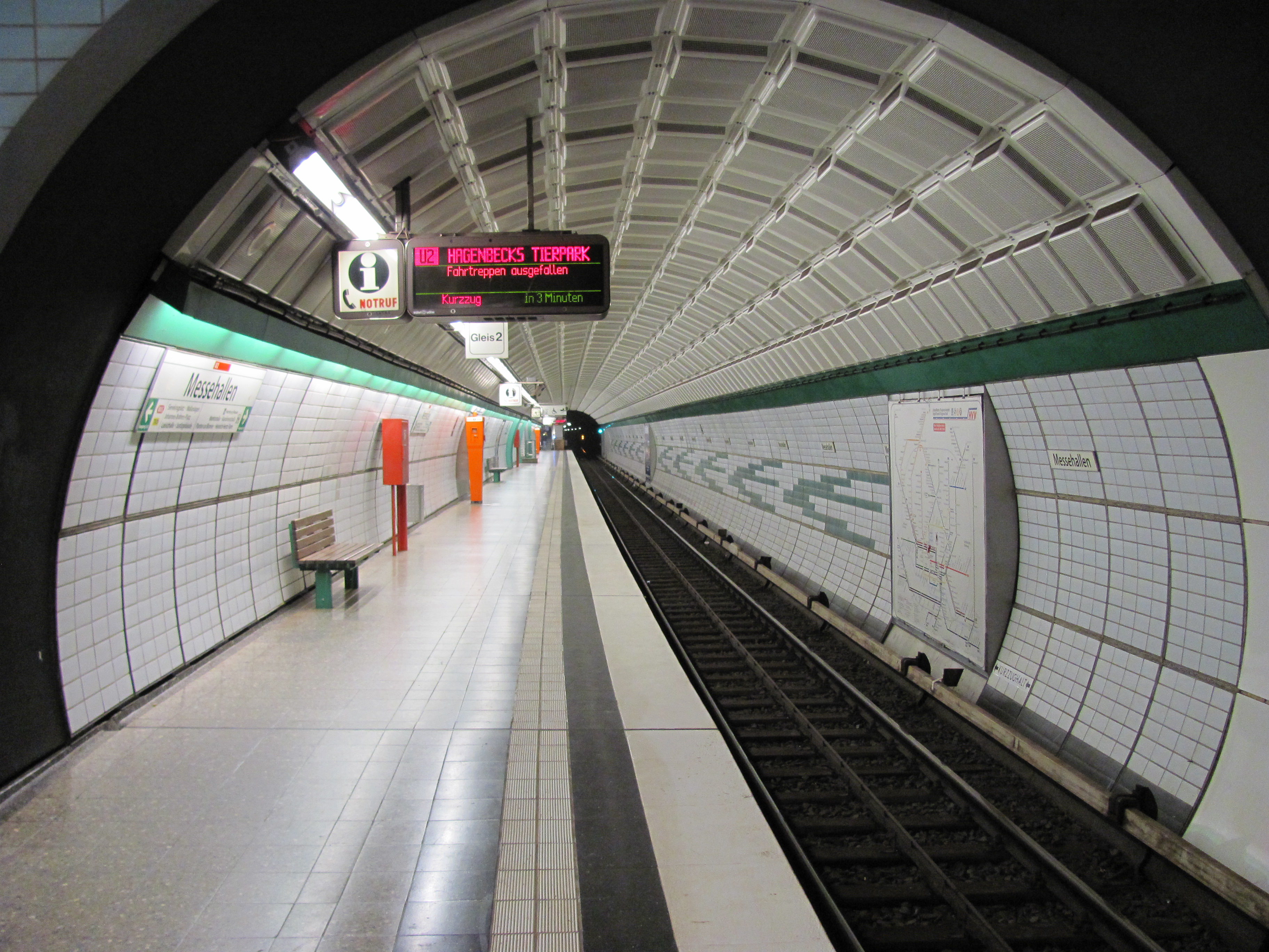 U-Bahn station Messehallen in Hamburg, Germany